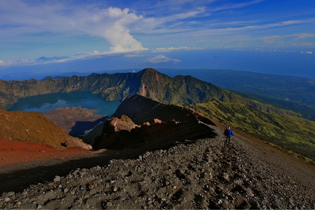 Mount Rinjani Ultra